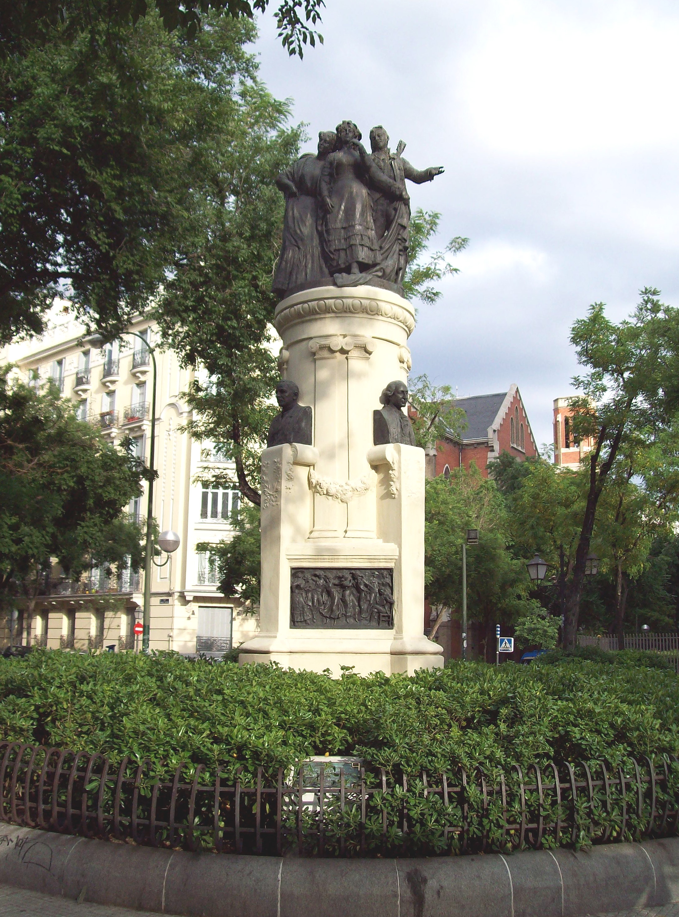 Monument to the Madrilenian Sainete Writers, at Calle de Luchana (street) in Madrid (Spain).